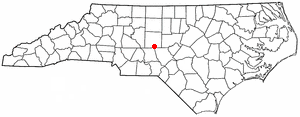 Category:North Carolina Dot Maps